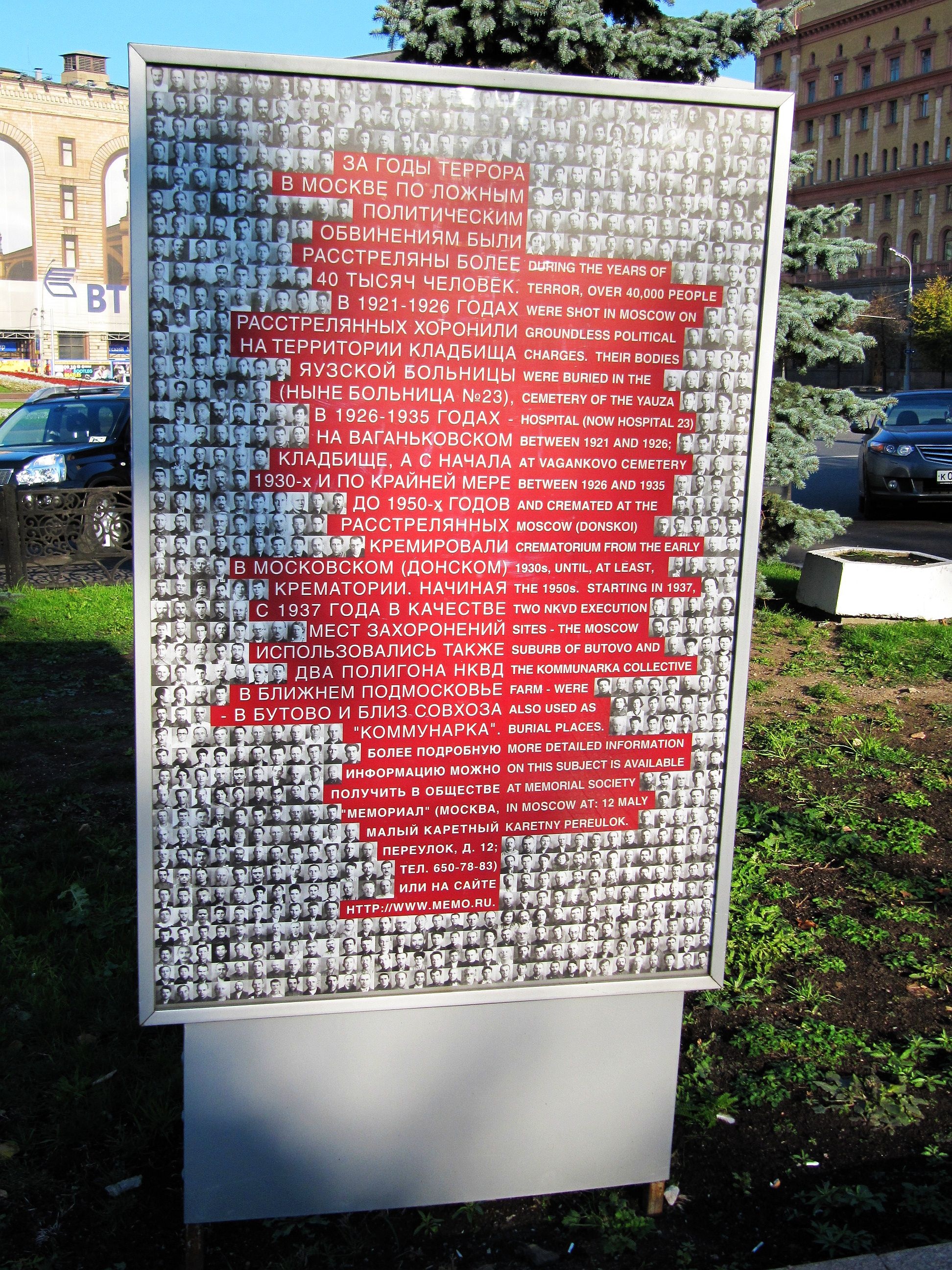 Memorial about Repression in USSR at Lubianka Square, Moscow, Russia.